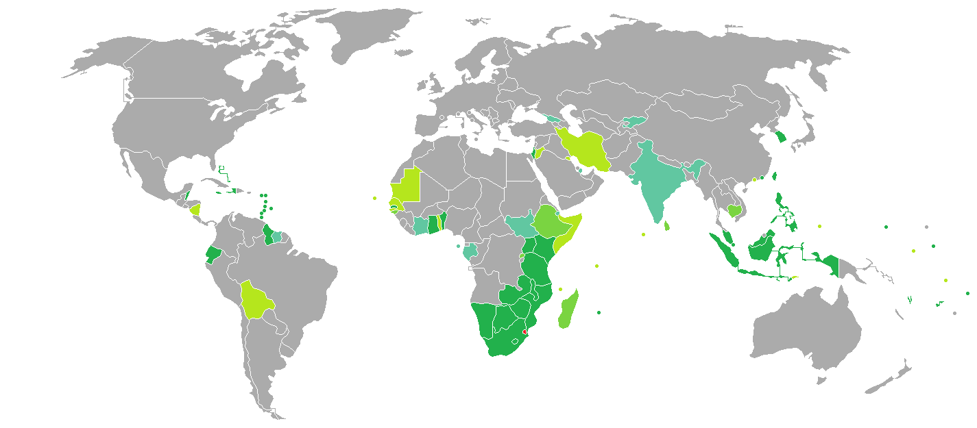 Visa requirements for Swazi citizens Eswatini Visa free access Visa on arrival eVisa Visa required